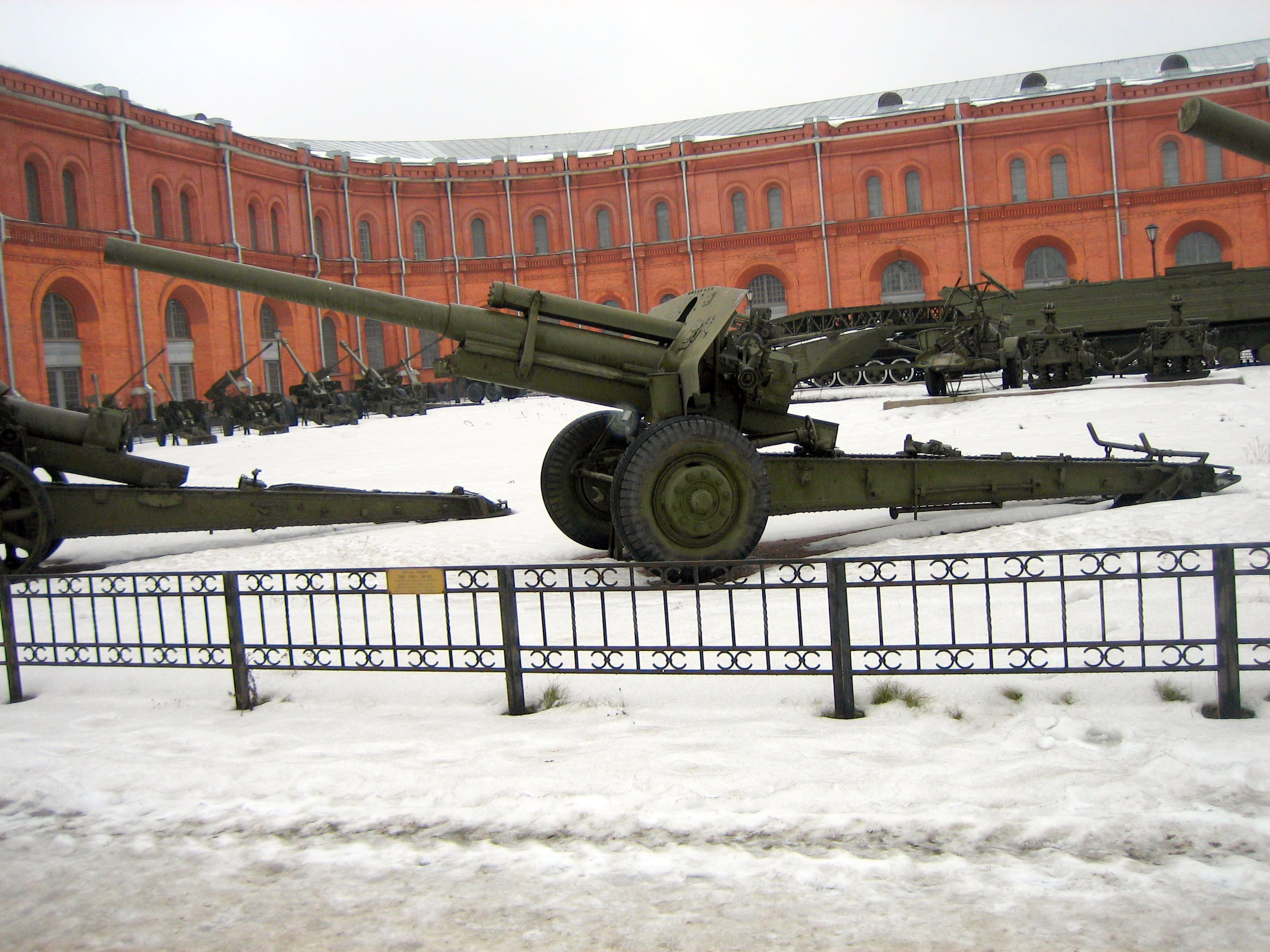 Soviet 107 mm M-60 Mark 1940 gun, displayed in Saint Petersburg Artillery Museum. Photo taken on 3 Marсh, 2007. Source: Photo by me, User:Saiga20K.